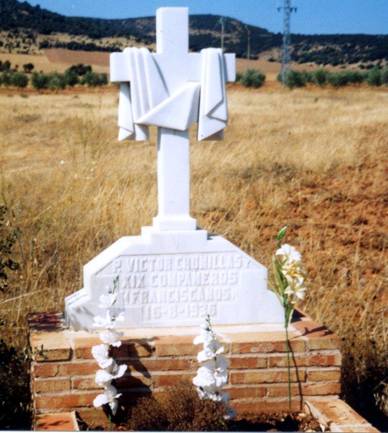 Cross indicating the spot were 20 franciscans were shot during the Spanish Civil War. Legend: "P. VICTOR CHUMILLAS Y XIX COMPAÑEROS FRANCISCANOS, 16-8-1936". Fuente el Fresno (Ciudad Real), Spain. Road N-401.